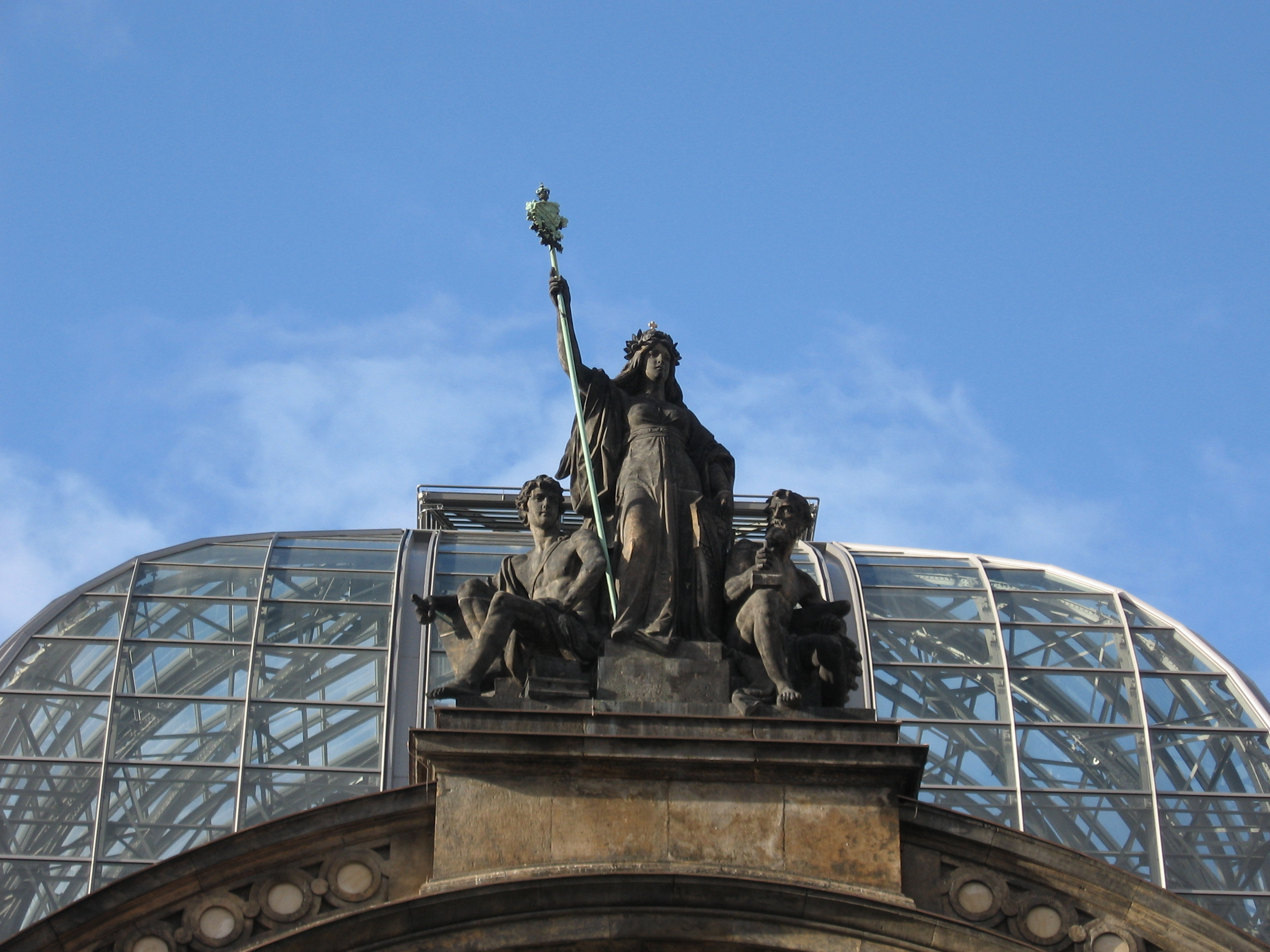 The Saxonia, sculpted by Friedrich Rentsch, on top of Dresden Hauptbahnhof. The personification of Saxony with the allegories Science and Technology.